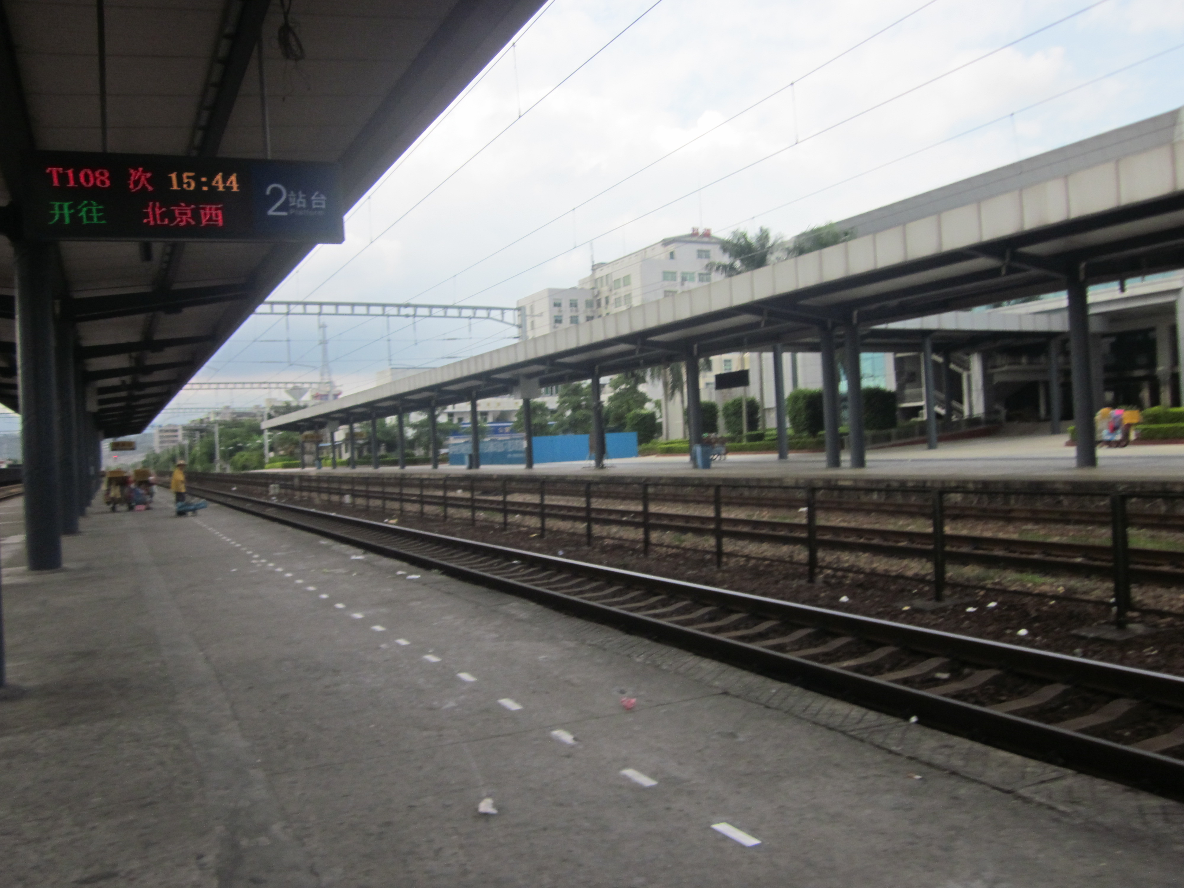 惠州站2站台